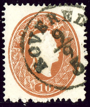 Austrian KK 10 kreuzer issue 1861, cancelled at ROVEREDO South Tyrol - Mueller type RS-fh with hour (5) indication